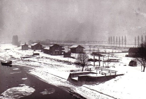 Bahnhof Rosengarten, winter 1899/1900